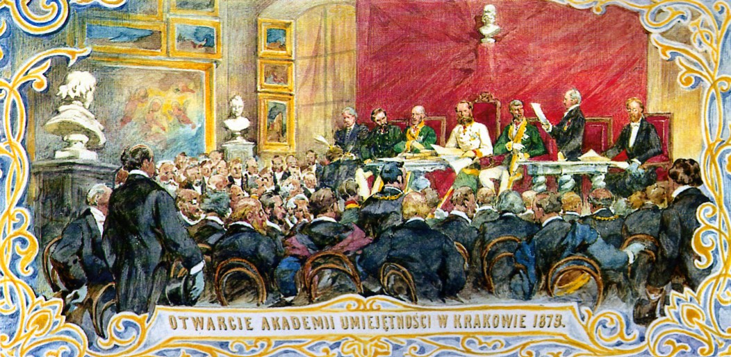 Inauguration of the Academy of Learning in Krakow in 1873